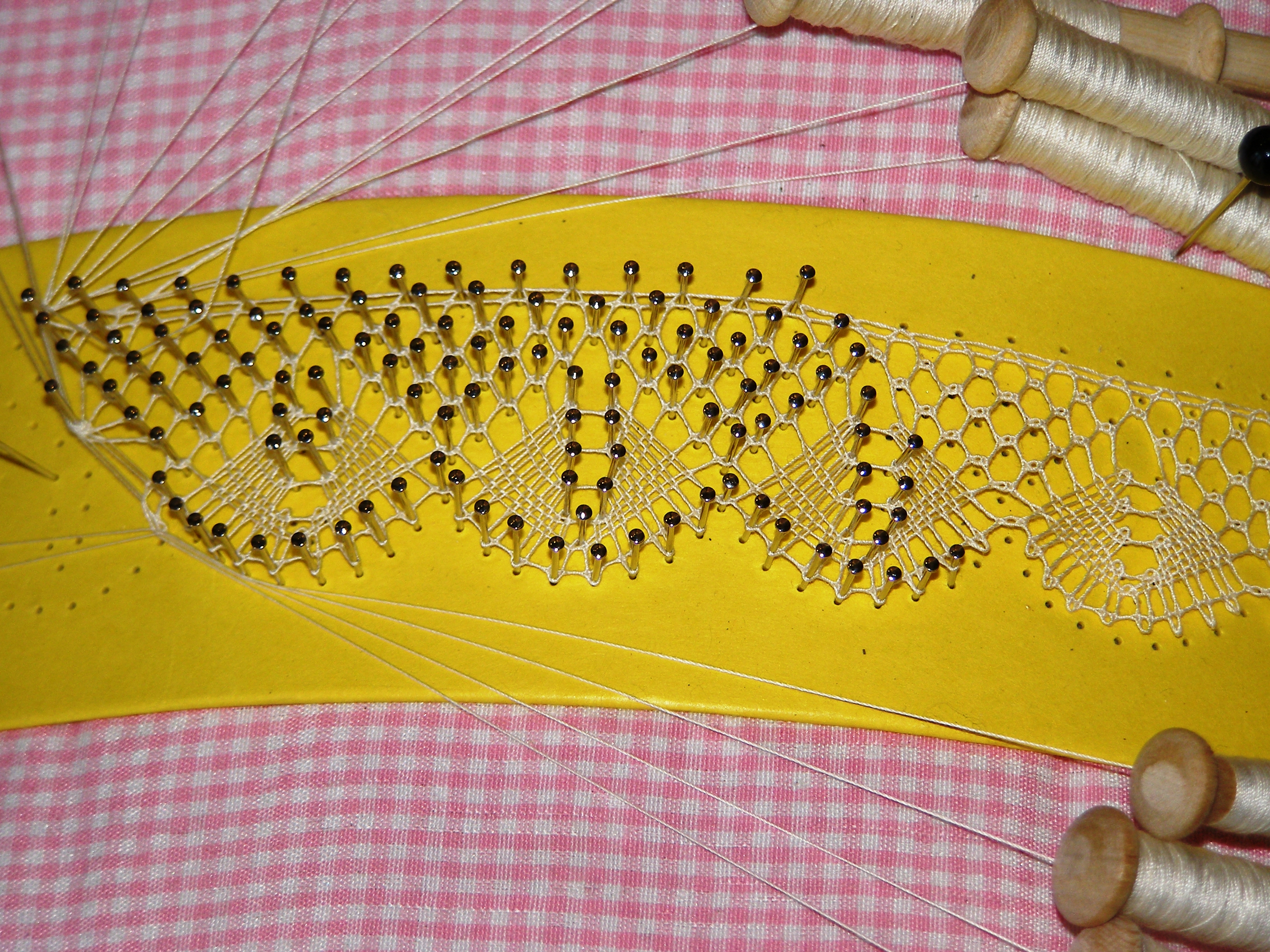 Bilros craftwork: detail of the interlacing